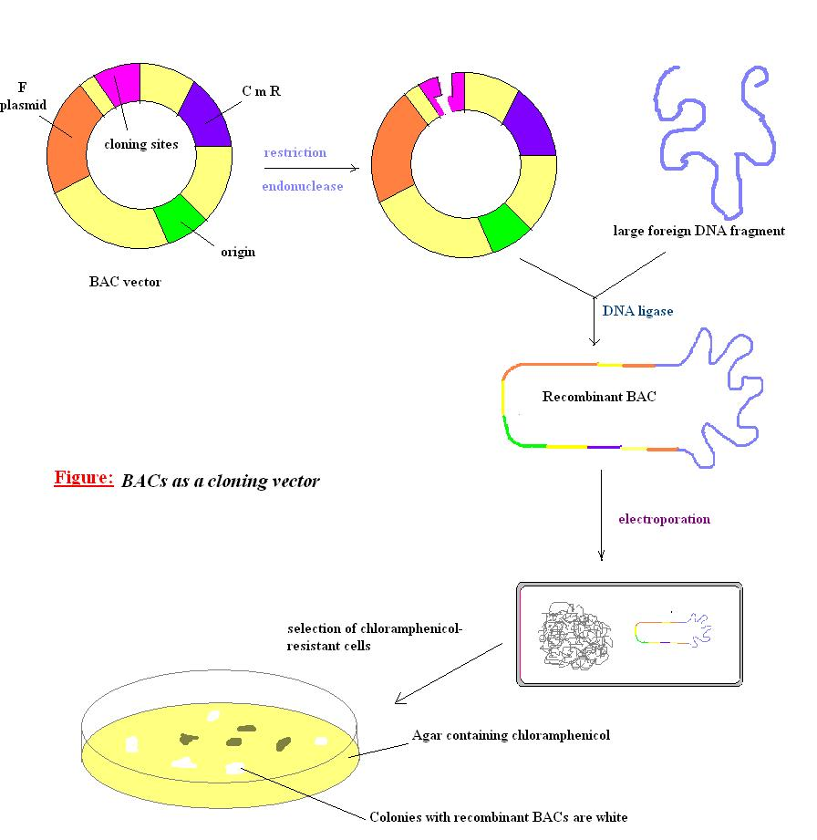 BAC Cloning Vector